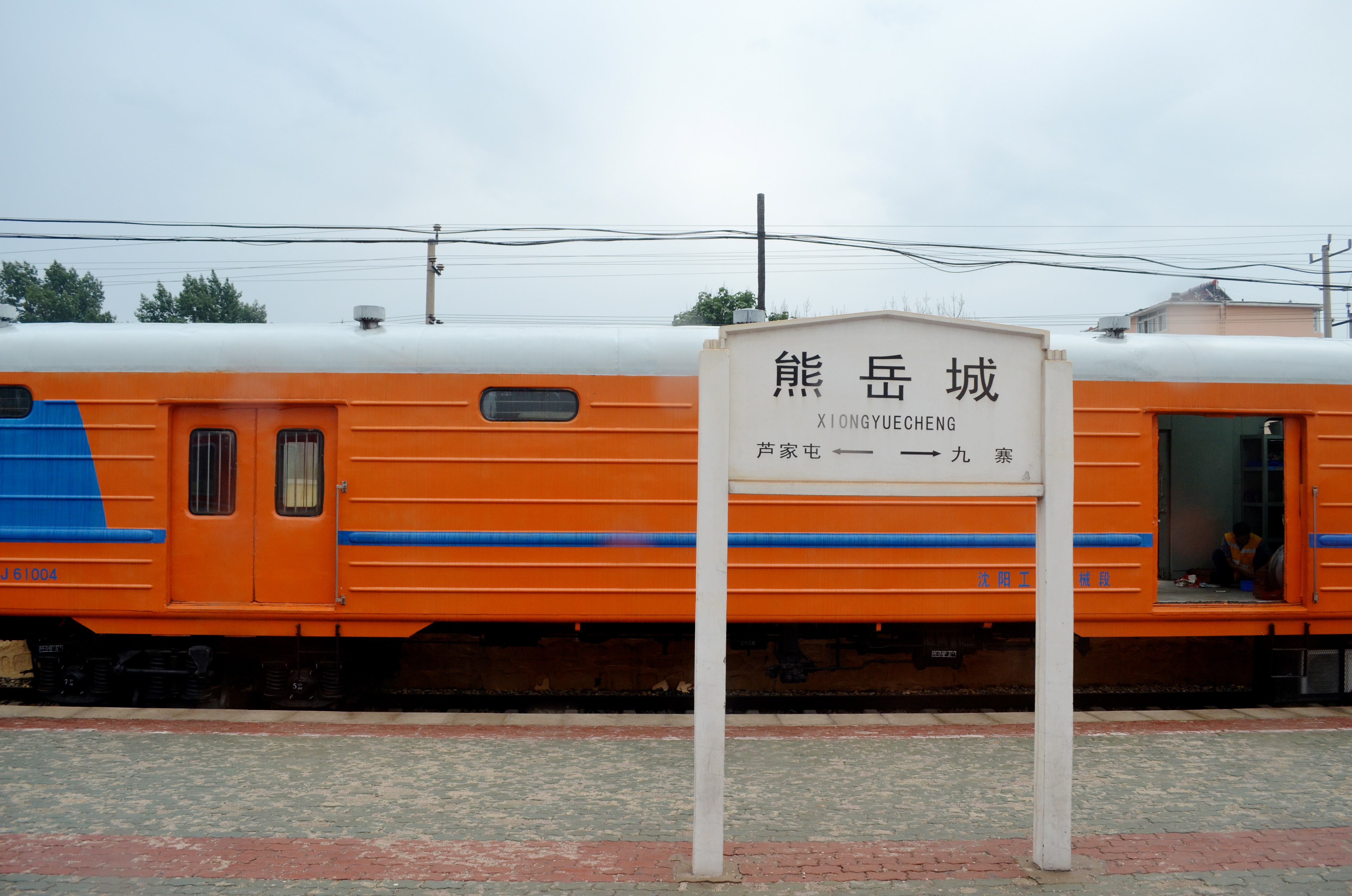 Xiongyuecheng Railway Station